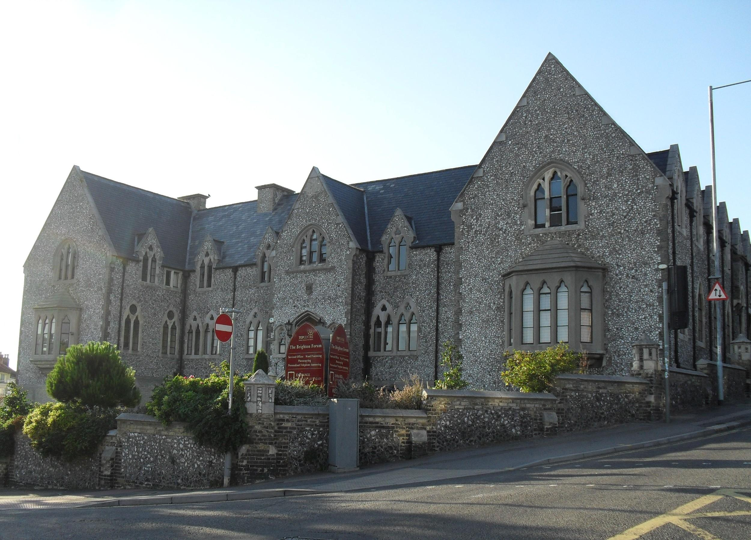 Citibase Brighton (formerly The Brighton Forum by the Topcentre), Viaduct Road/Ditchling Road junction, Brighton, City of Brighton and Hove, England. Built in 1854 by William and Edward Habershon as the Diocesan Training College for Female Schoolmistresses; later used by the Royal Engineers as a base and then as their records archive. Listed at Grade II by English Heritage (IoE Code 480569)